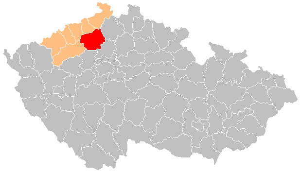 District of Litoměřice